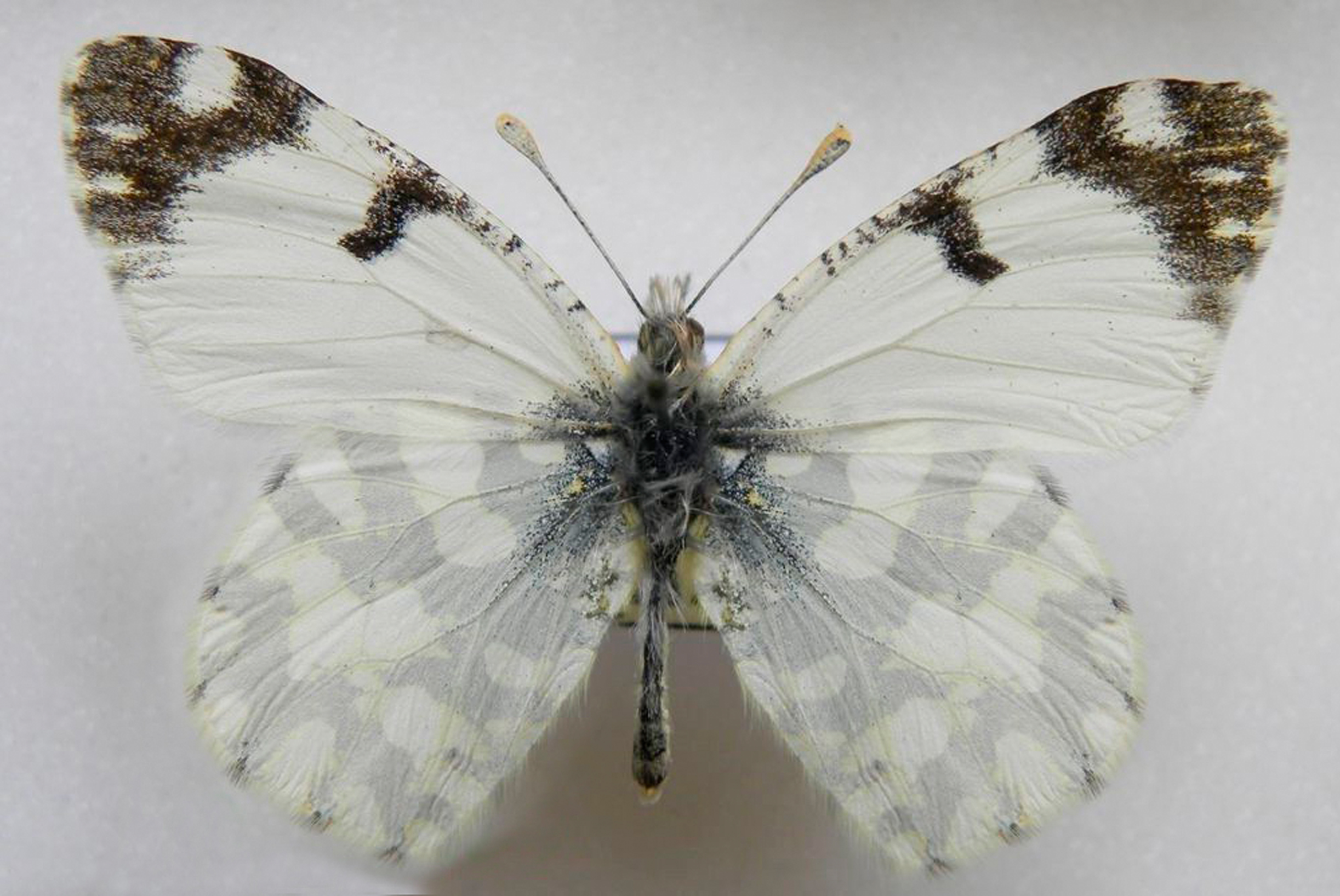 Euchloe ausonia (Hübner, 1804)